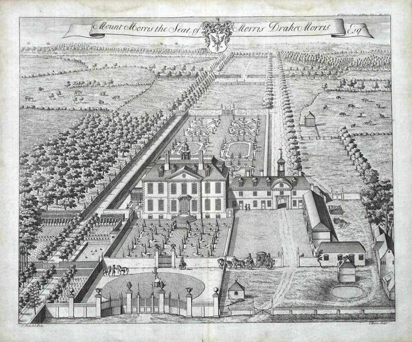 Mount Morris, near Hythe, engraved by Johannes Kip, after Thomas Badeslade, 1719. The Seat of Morris Drake Morris Esq., engraved by Johannes Kip after Thomas Badeslade, published by D. Midwinter London, 1719, in "The History of Kent" by John Harris. A copper engraved bird's eye view of Mount Morris, Monks Horton near Hythe, Kent by Johanne Kip (1653 -1722), 16" x 13".